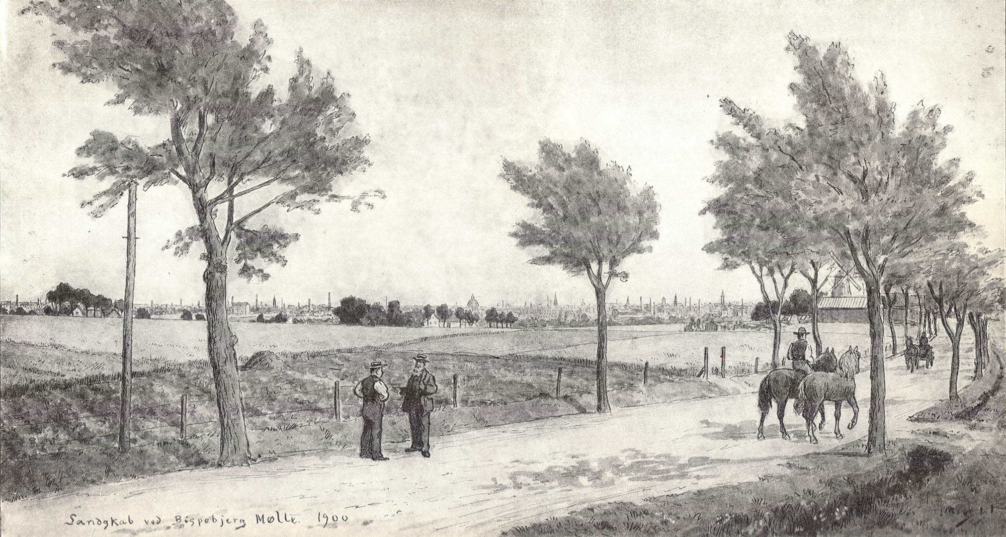 Frederiksborgvej with Bispebjerg Windmill (demolished 1908) just visible at the corner of Frederiksborgvej andf Tuborgvej in Copenhagen, Denmark